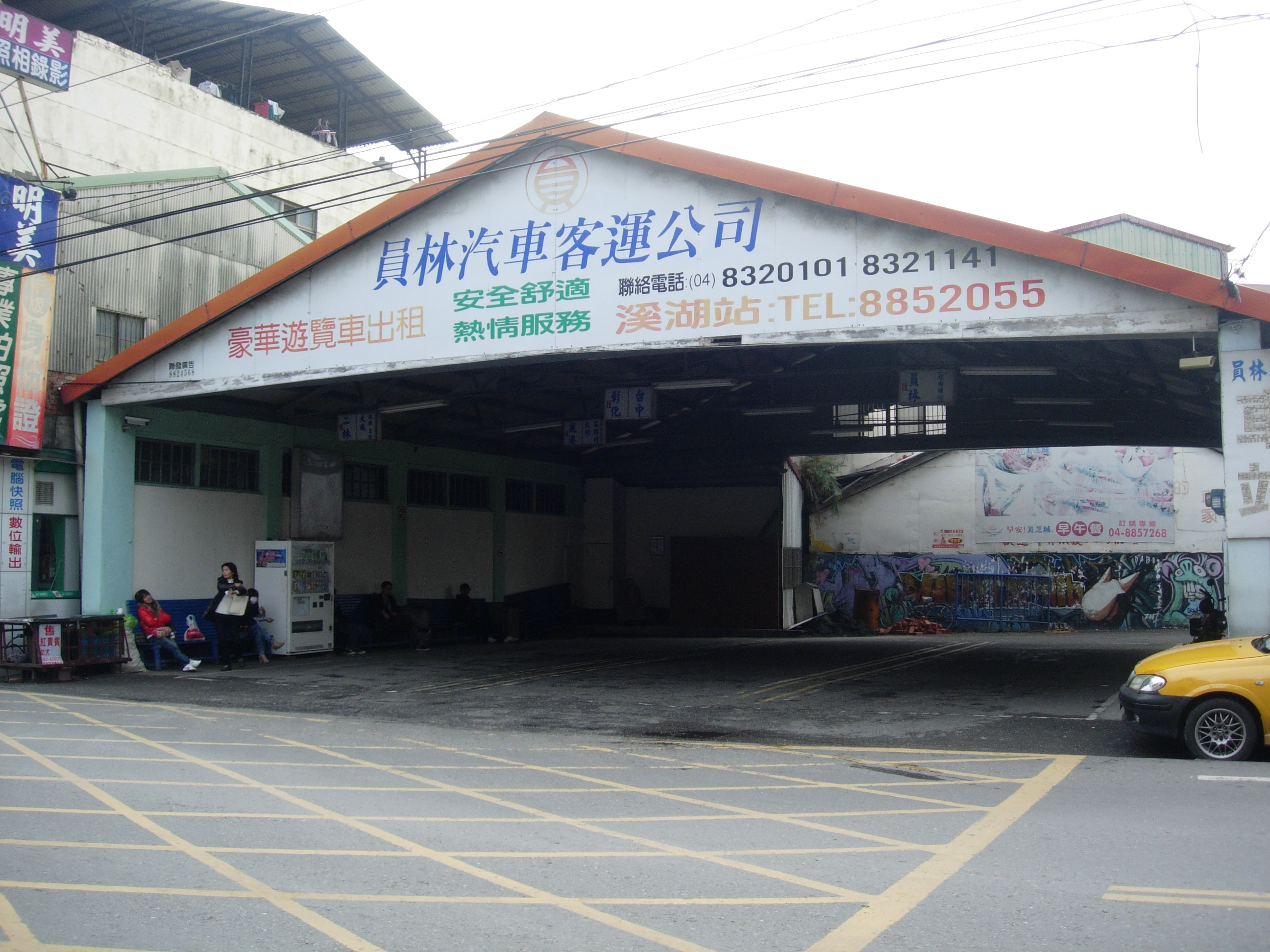 Yuanlin Bus Hsihu Station中文（台灣）: 員林客運溪湖站外觀。